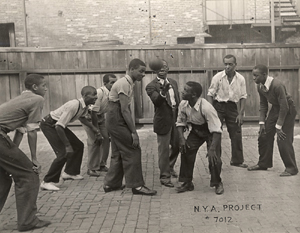 Photograph of the tip-off to a basketball game played in Baltimore as part of National Youth Administration (NYA) recreation program sponsored by the Operations Division of the Works Progress Administration of Maryland. (mdaa014r.jpg)